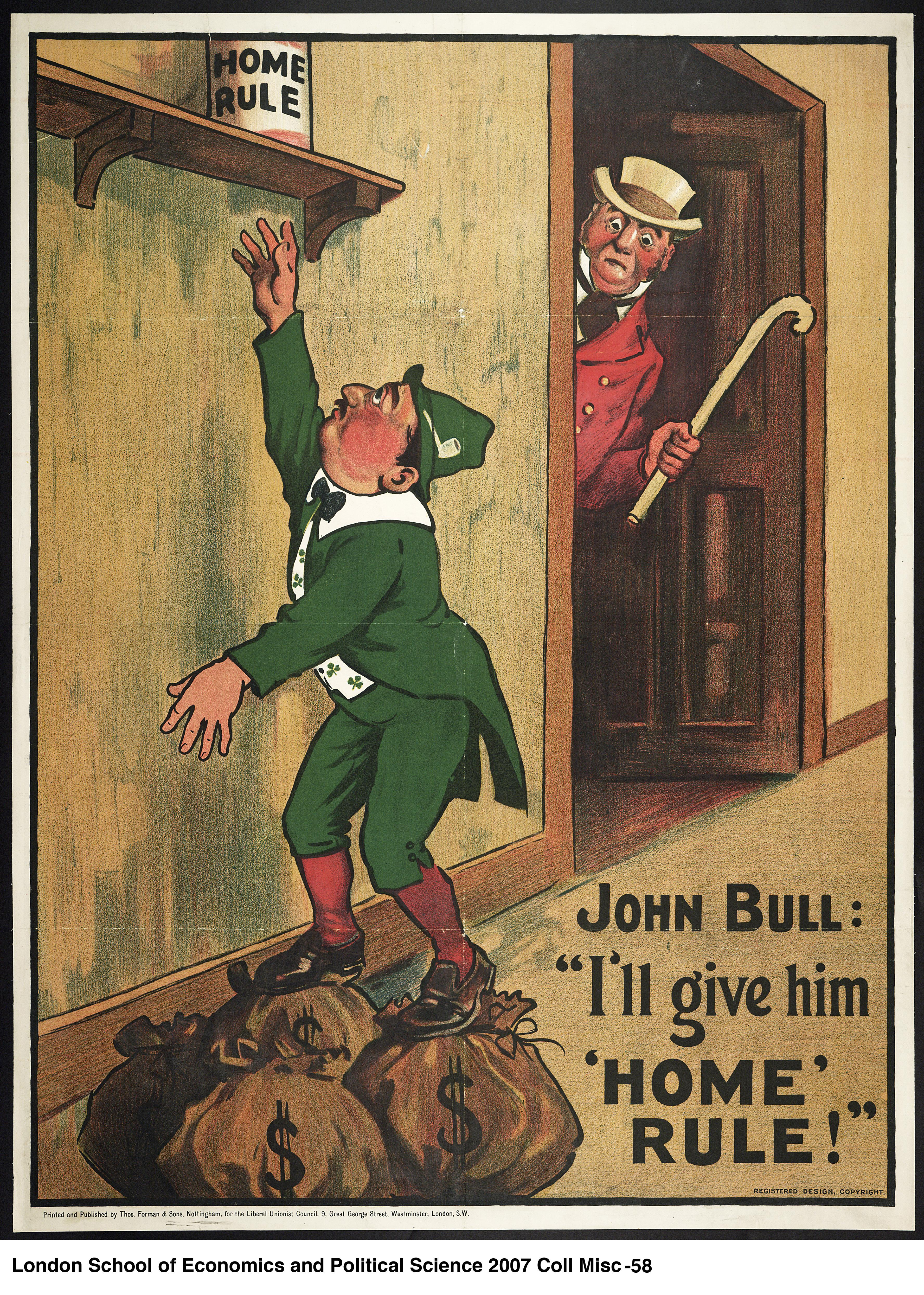 Full colour lithograph depicting John Redmond, dressed in Kelly green with a waistcoat covered in shamrocks, standing on some money bags containing US dollars, and reaching up for a jar on a shelf above him called "Home Rule". John Bull is seen emerging from a door behind Redmond, brandishing a walking stick. Poster produced for the Liberal Unionist Council, 9 Great George Street, Westminster, London. Artist: Unknown Printer: Thomas Forman and Sons Publisher: Printer Place of Production: Nottingham Date: c1905-c1910 Persistent URL: misc 0519/58')